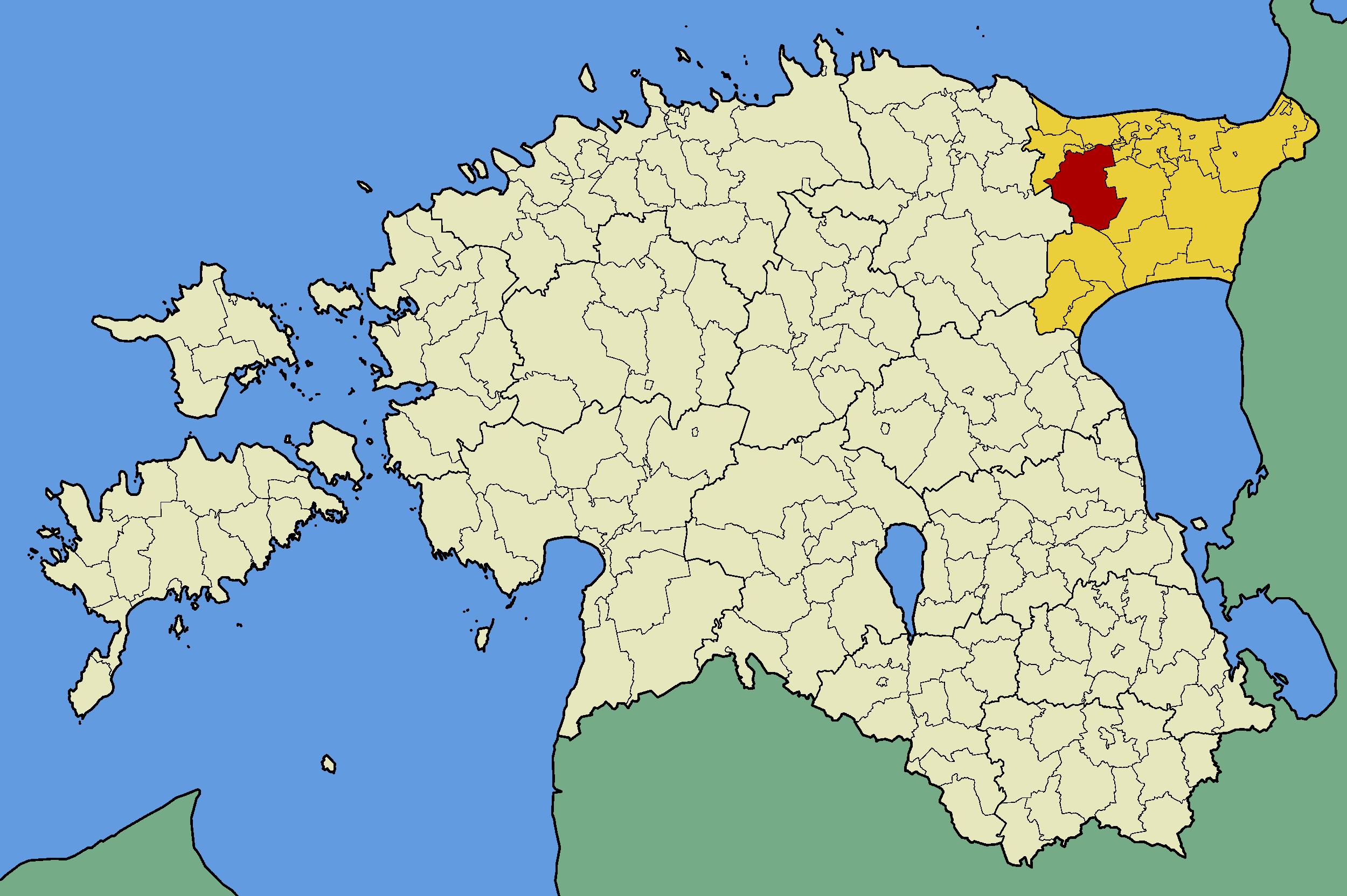 Map of Estonia with borders of municipalities (parishes). Ida-Viru county and Maidla municipality emphasized.